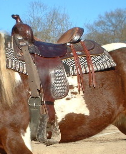 Close up of a western style saddle